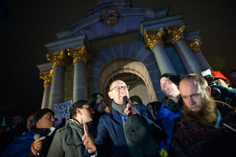 Arseniy Yatseniuk, one of the opposition leaders, seen during public protest at European square. 27 November 2013. Kyiv, Ukraine.